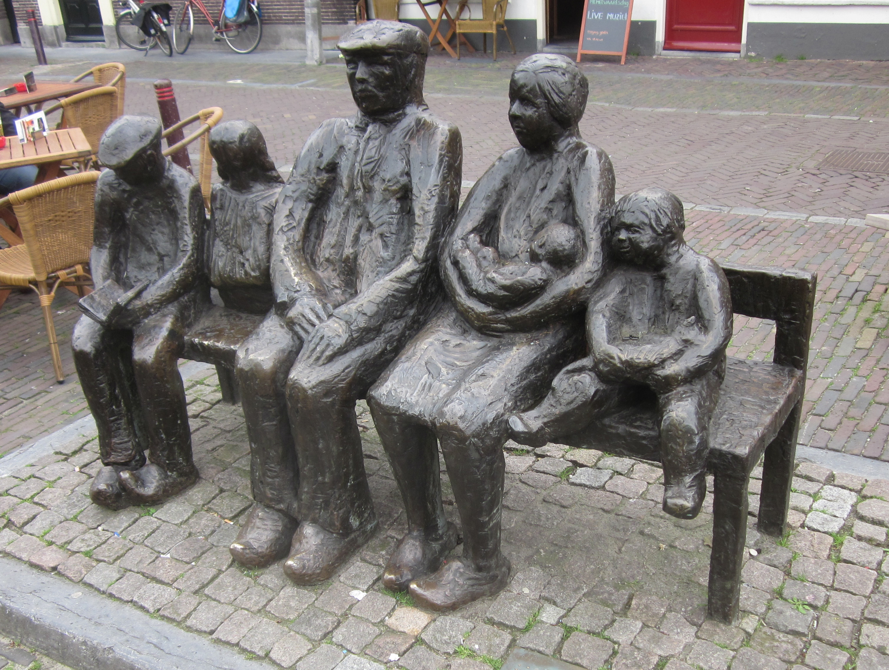 Sculpture of a farmersfamily, characters of the writer Herman de Man. Made by Ineke van Dijk in 1977 and placed at the Leeuweringerstraat/Markt in Oudewater.